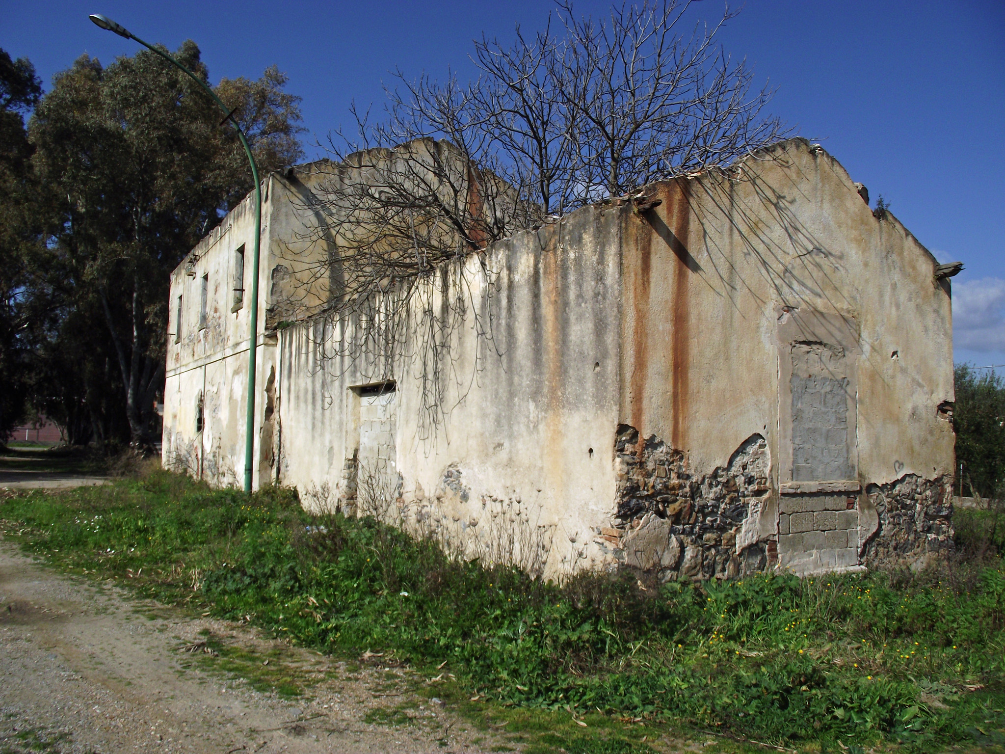 he ruins of the former FMS railway station of Narcao, in Sardinia, Italy, along the former railway Siliqua-San Giovanni Suergiu-Calasetta, closed in 1974. In the foreground the former goods shed of the station.